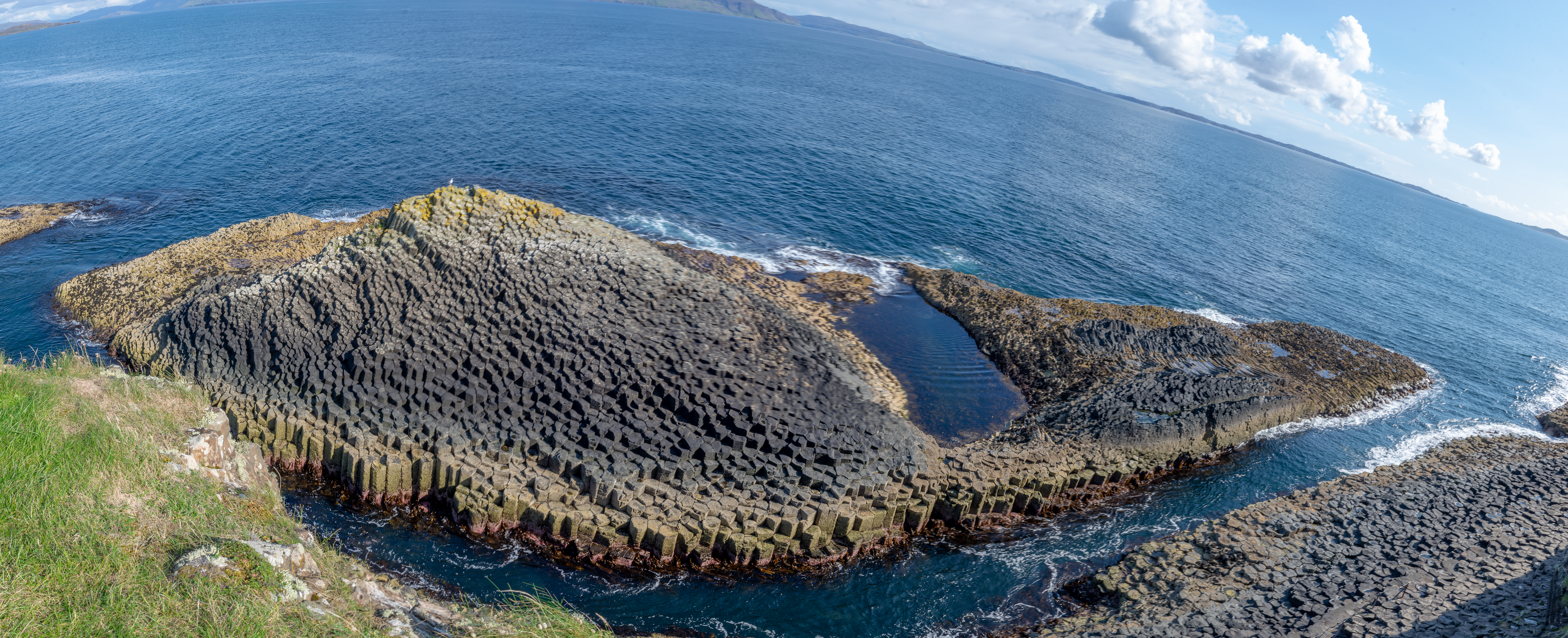 Am Buchaille basalt column formation seen from Staffa, Scotland